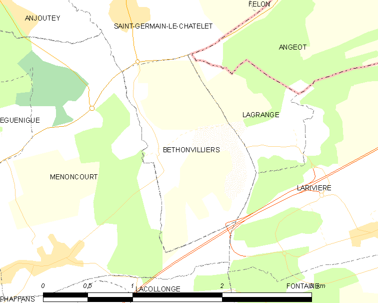 Map of French municipality Bethonvilliers